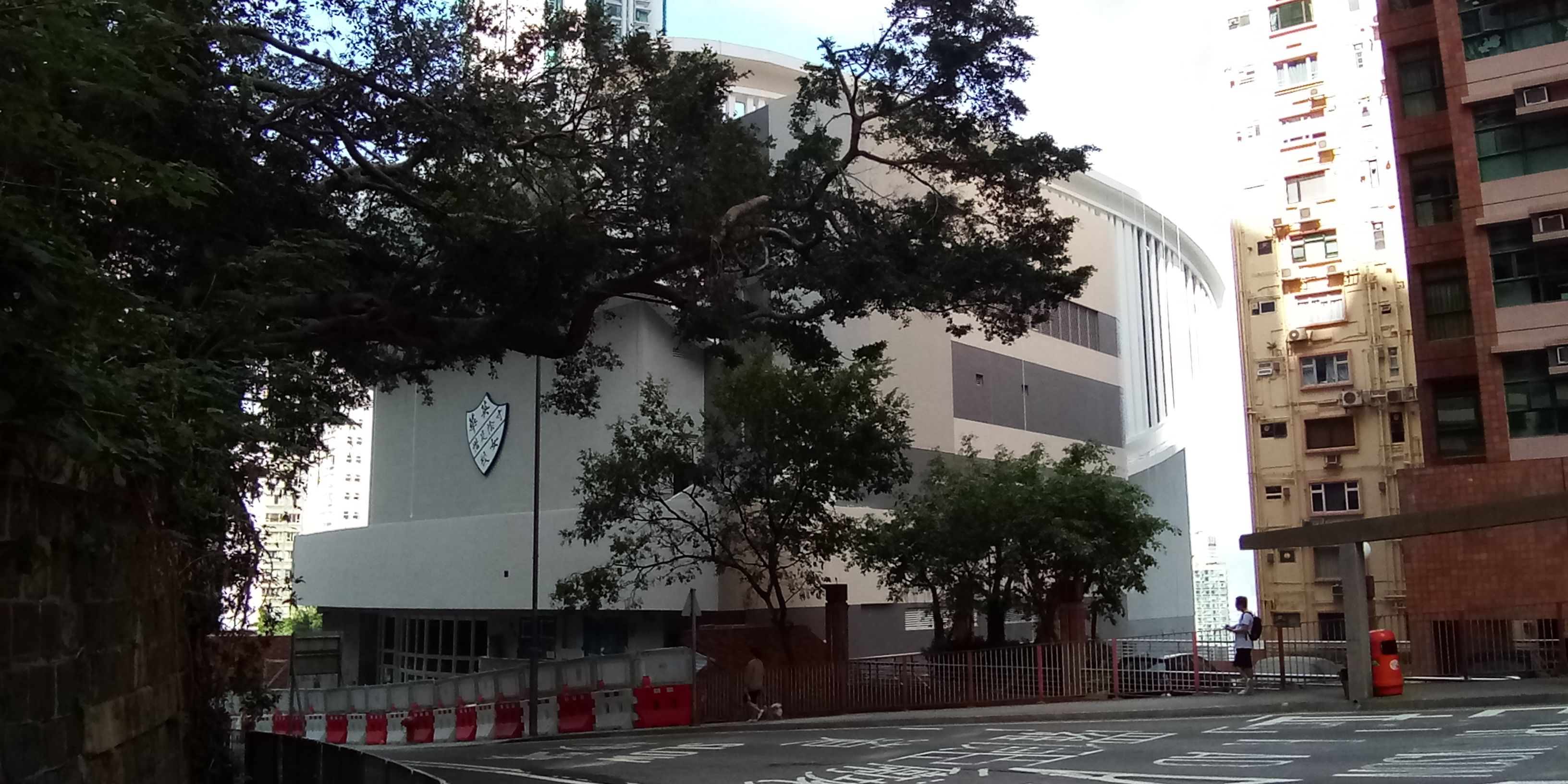 76 Robinson Road, West Point 中文（香港）: 西環羅便臣道76號